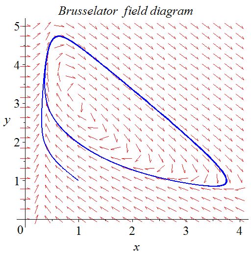 Brusselator field plot